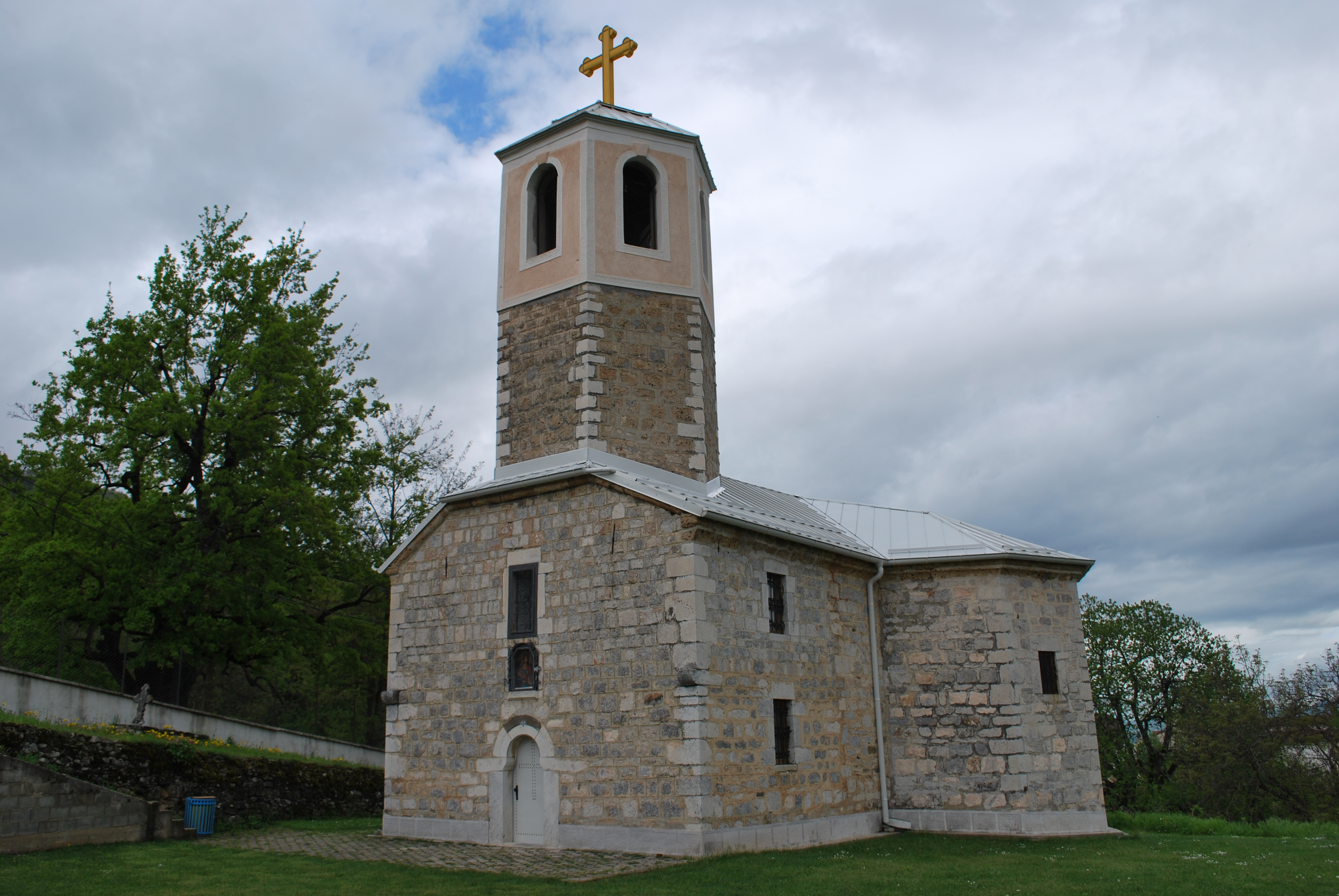 St. Michael the Archangel Church in Vrutok, Macedonia